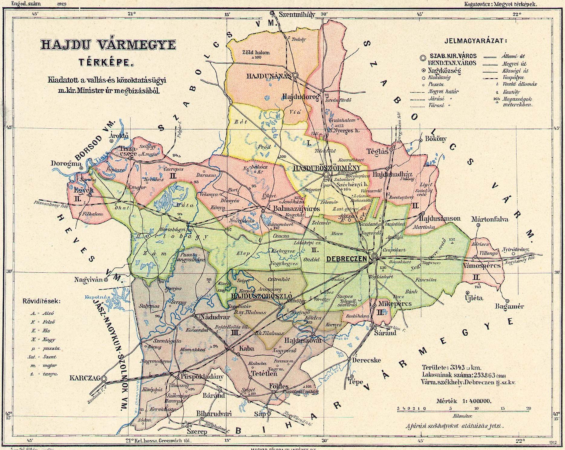 Administrative map of the county of Hajdú in the Kingdom of Hungary